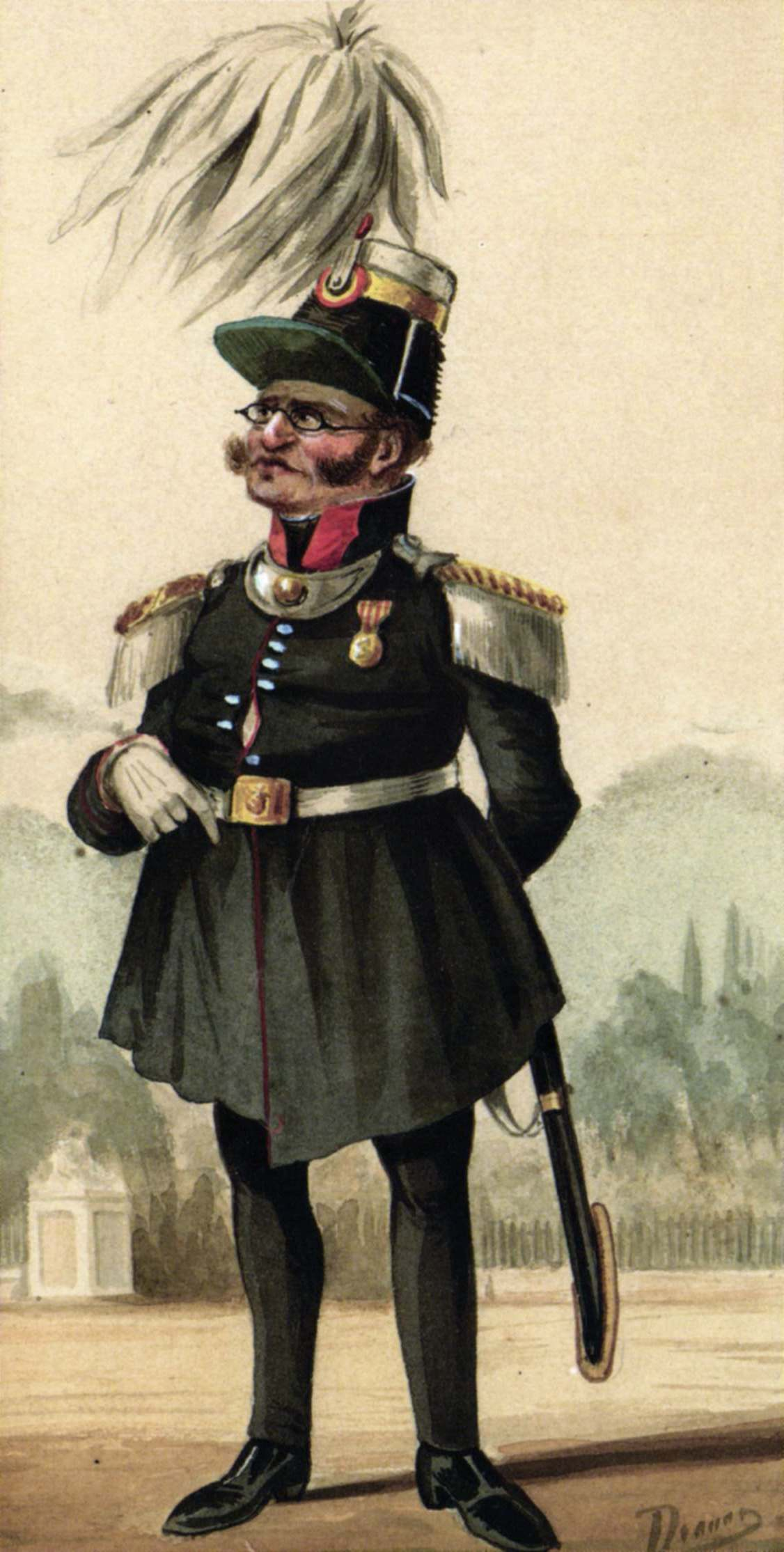 Satirical characature of a Belgian Garde Civique officer, c. 1860.